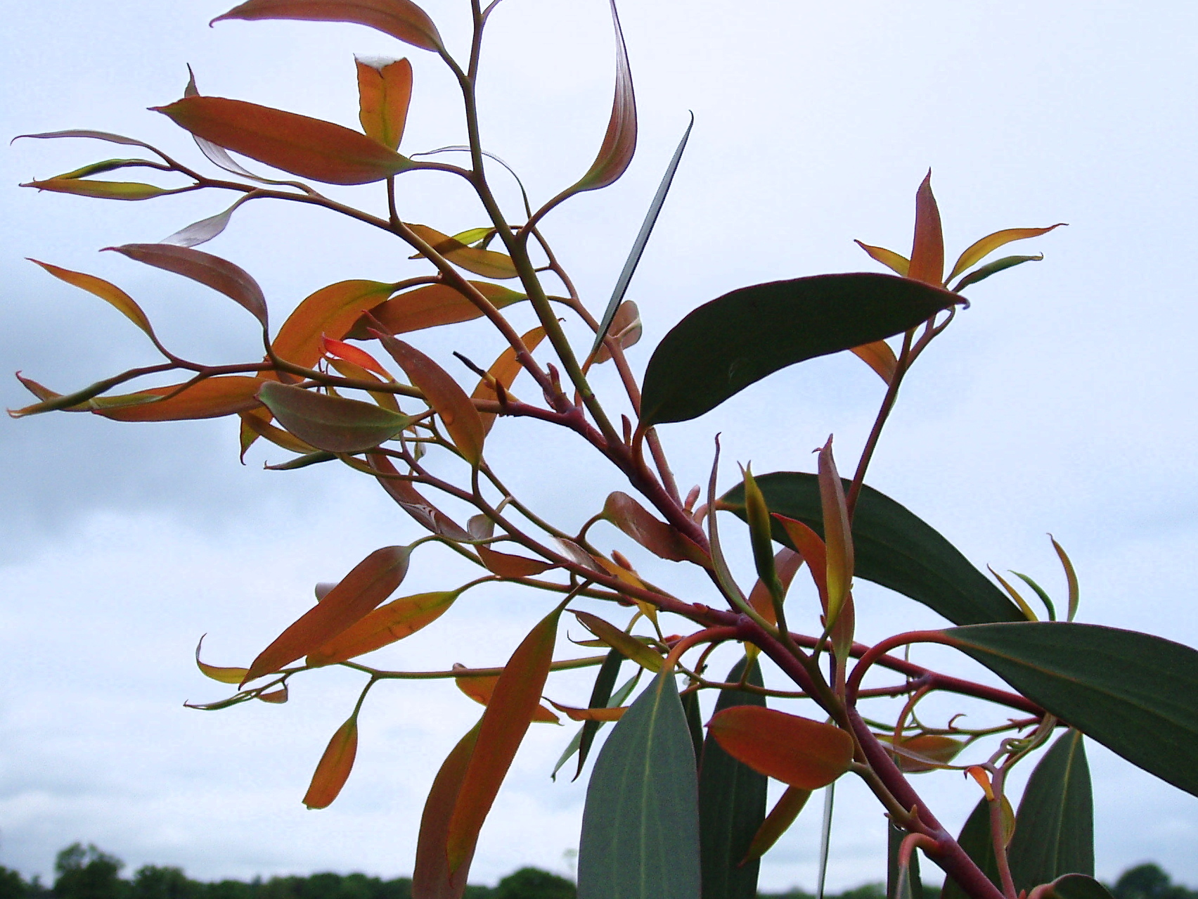 Eucalyptus pauciflora Orange leaves when young